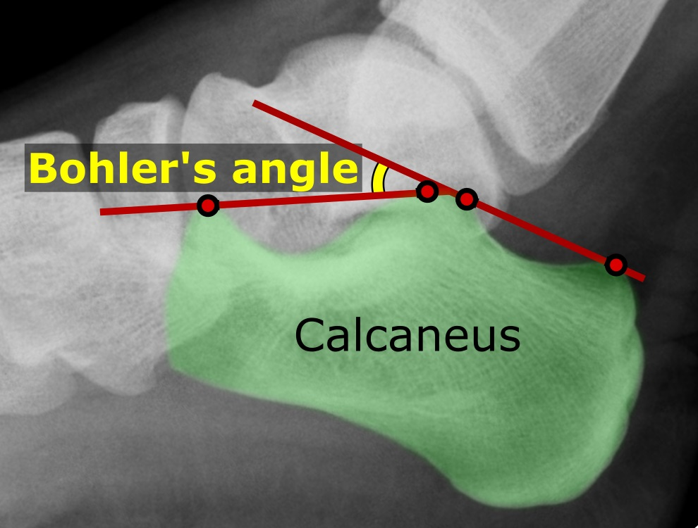 Measurement of Bohler's angle. Reference: Page 562 in: Mark D. Miller, Stephen R. Thompson (2015) Miller's Review of Orthopaedics (7th ed.), Elsevier Health Sciences ISBN: 9780323390422.